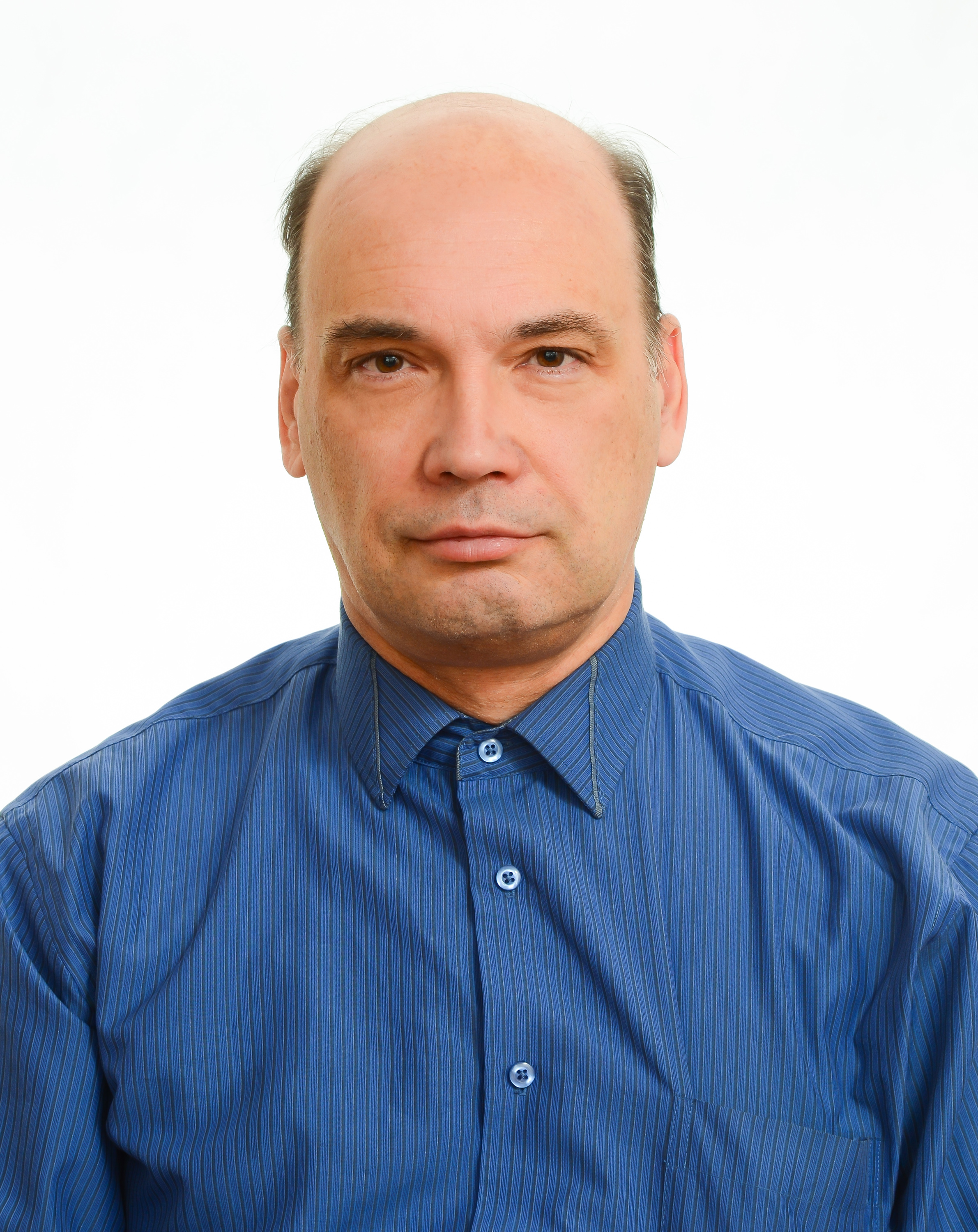 Prof Oleg V Minin